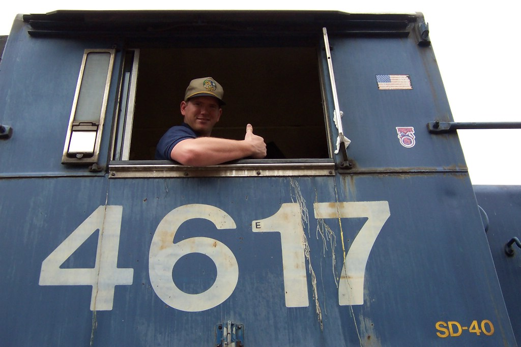 Virgil 'Cowboy' Fitzpatrick, under the permission and supervision of a CSXT locomotive engineer, was allowed a rare tour of an EMD SD40. Photo was taken by the CSXT locomotive engineer, using Virgil Fitzpatrick's camera.